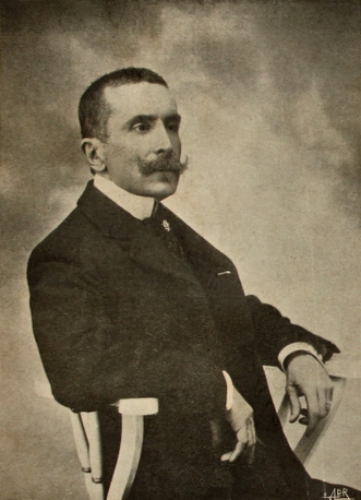 Depicted person: Abel Botelho – Portuguese writer and diplomat